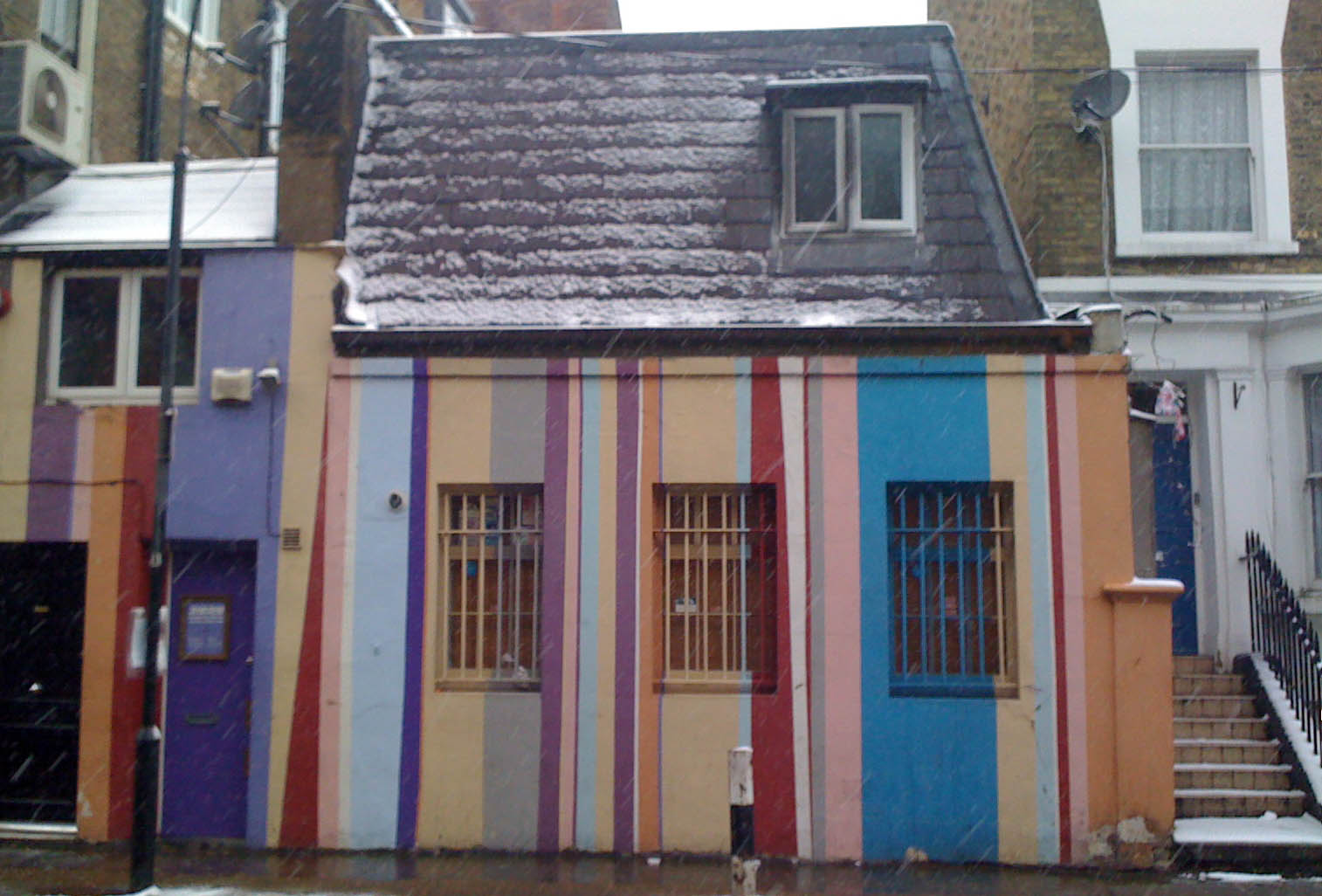 2020 Casting in Hopgood St, Shepherd's Bush